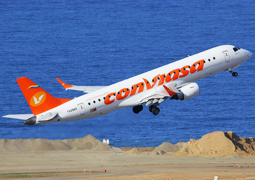 Conviasa Embraer 190AR taking off at Caracas